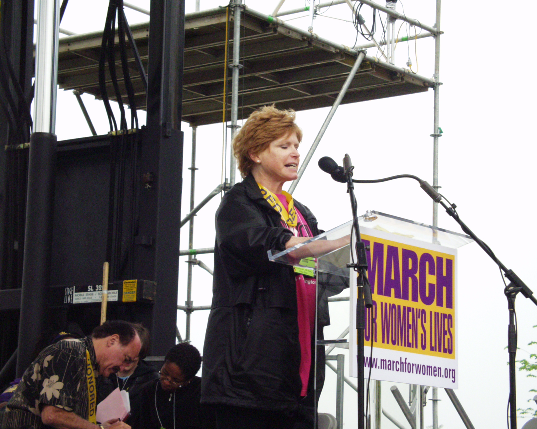 On April 25, 2004, an estimated million people came to Washington DC to participate in the March for Women's Lives. Bonnie Franklin was one of the speakers.